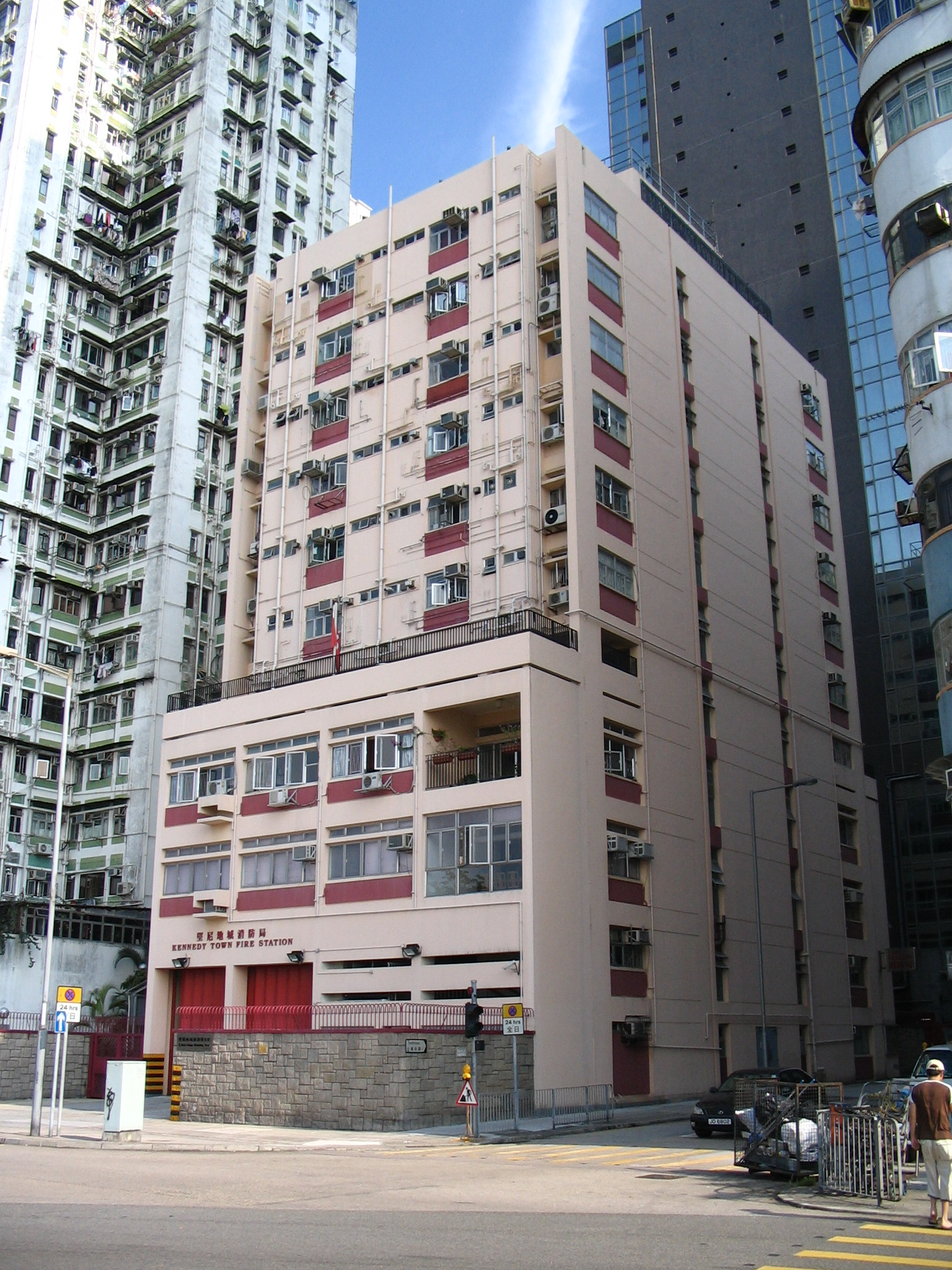 Photo of Kennedy Town Fire Station